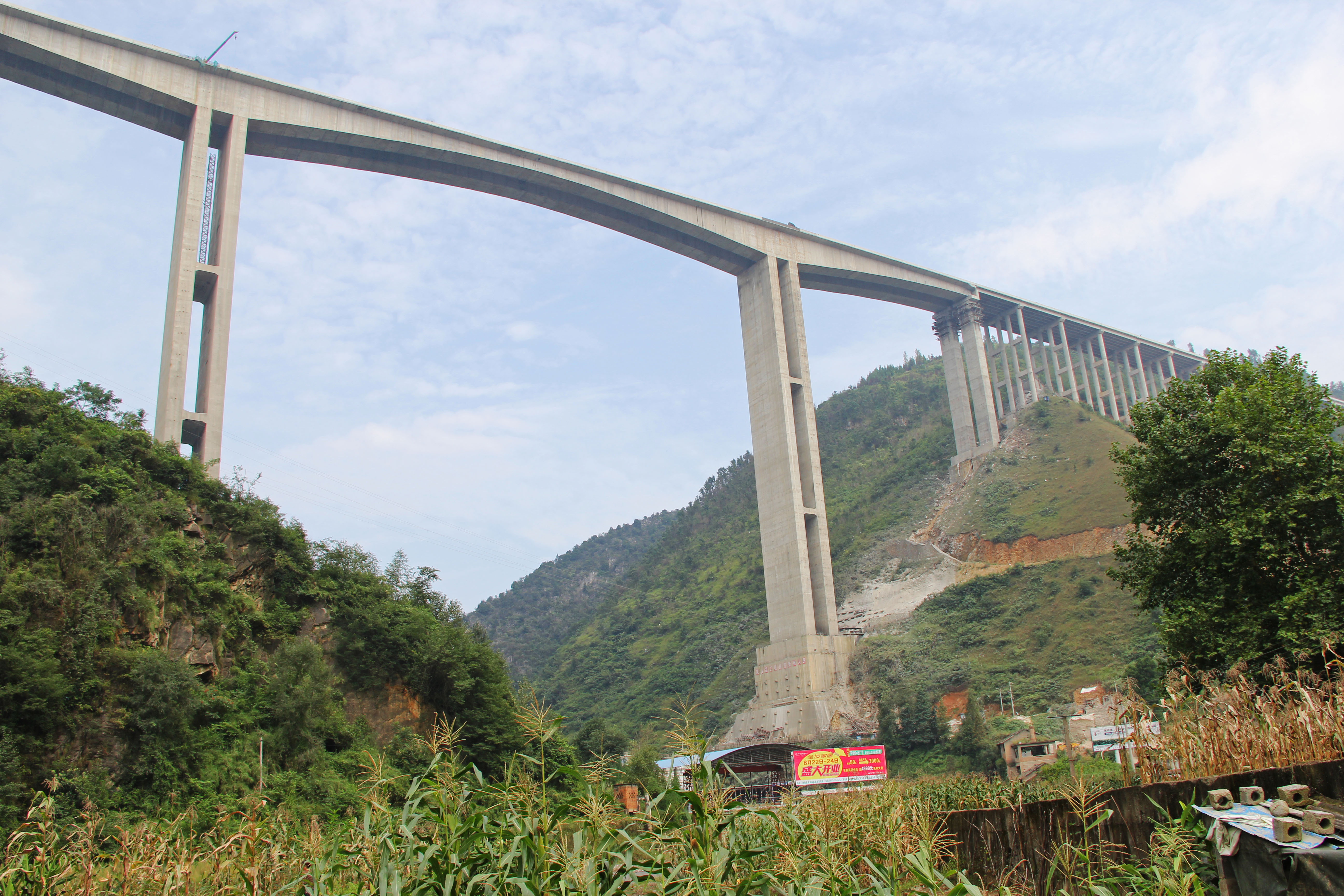 Nayong River Bridge.